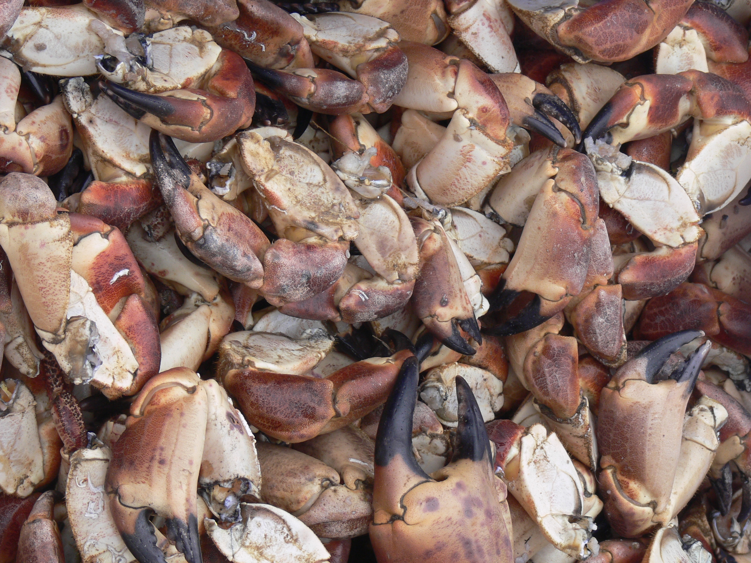 Crab claws fo "Sleeper" (French name of Cancer pagurus), freshly landed from the fishing vessel, and sold on the dock, Port of Roscoff, Brittany, France, 2010/07/24. As for the chicken thighs, some customers become difficult and just want to buy the parts easier to eat animals